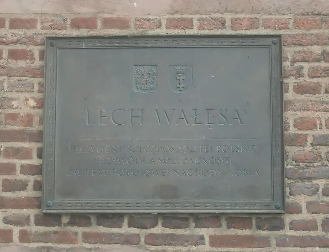 Plaque for Lech Wałęsa at Długie Pobrzeże Street in Gdańsk. Near Motława and Green Gate.